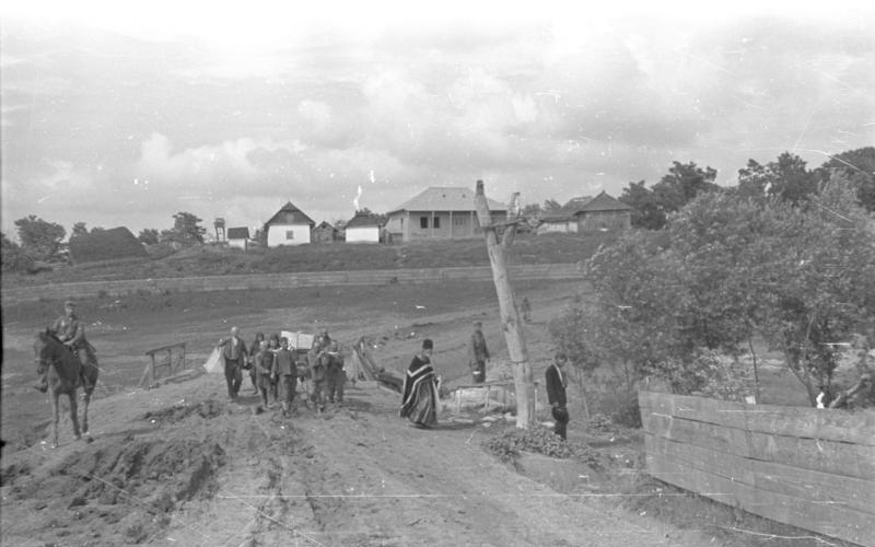 Burial in Zăicani